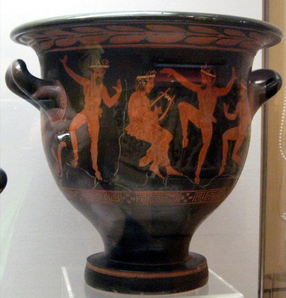 Dionisys and dancing pans. Dinos Painter, c. 420 BC